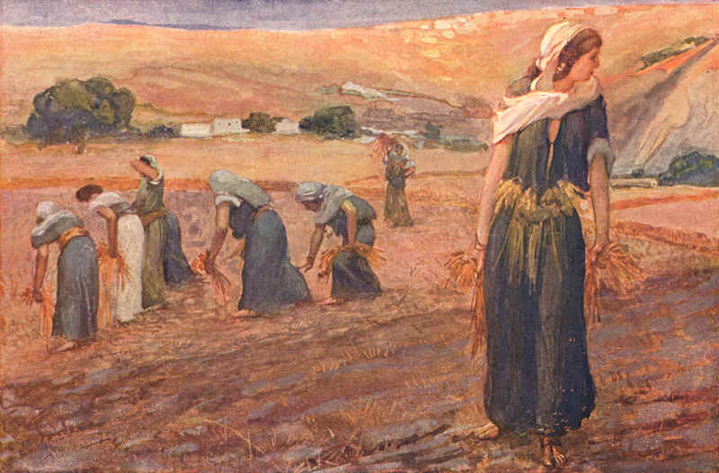 gleaners, as in Deuteronomy 24:19–21, watercolor by James Tissot